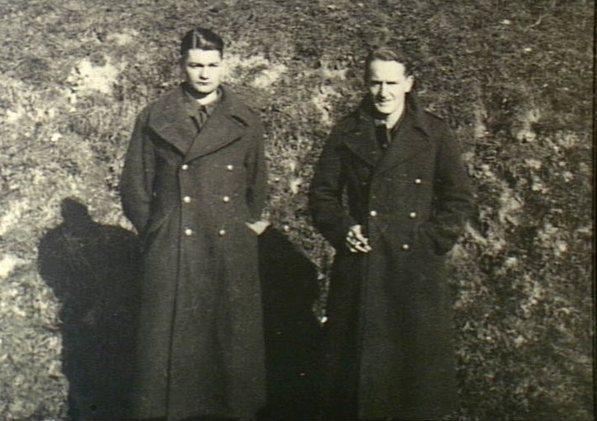 Eric Edwards and Leslie Laws (both POW) at Marburg a Drau, Yugoslavia